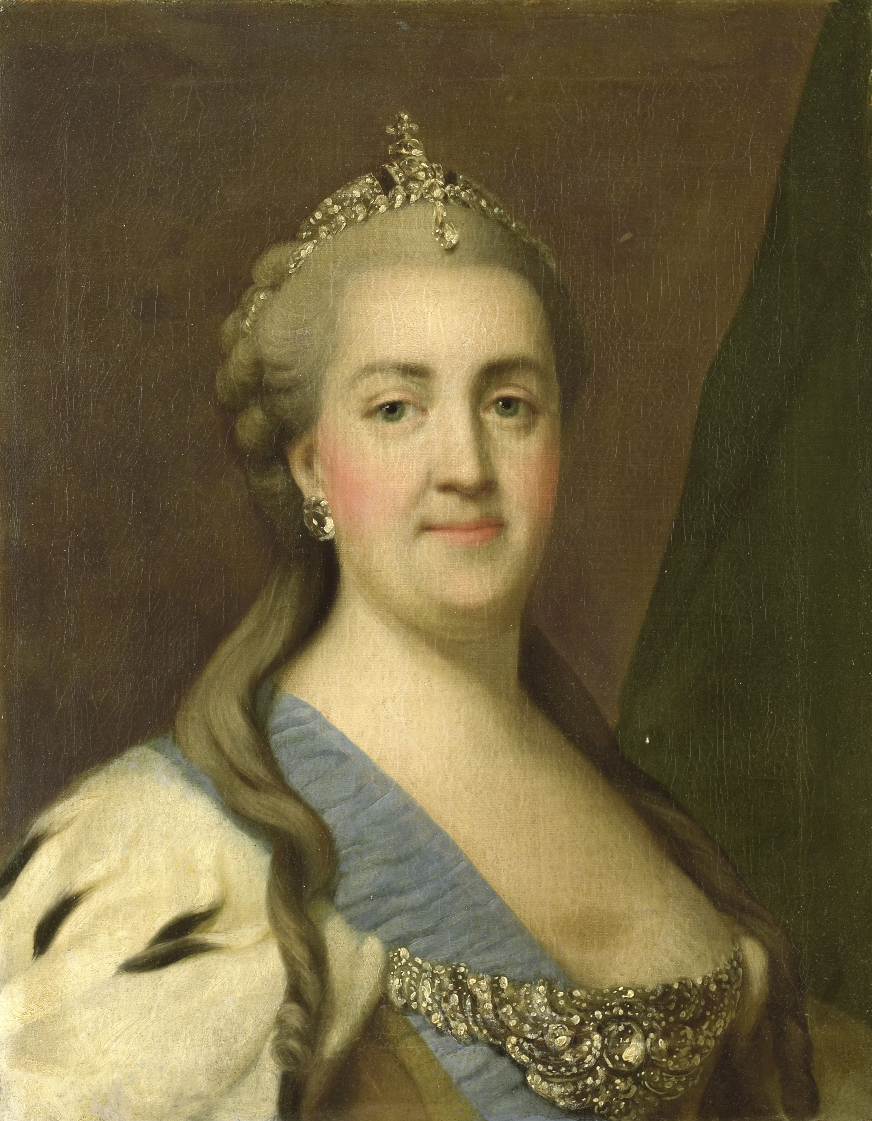 Portrait of Catherine II, Empress of Russia. Bust facing right. On her head a diamond tiara.